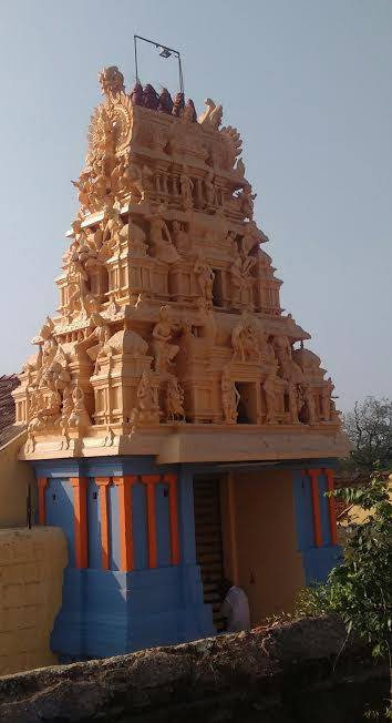 Vallam vajjiresvarar temple வல்லம் வஜ்ஜிரேசுவரர் கோயில்